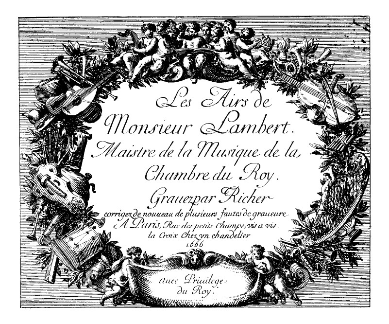 Title page of Lambert's Airs of Paris, 1666.